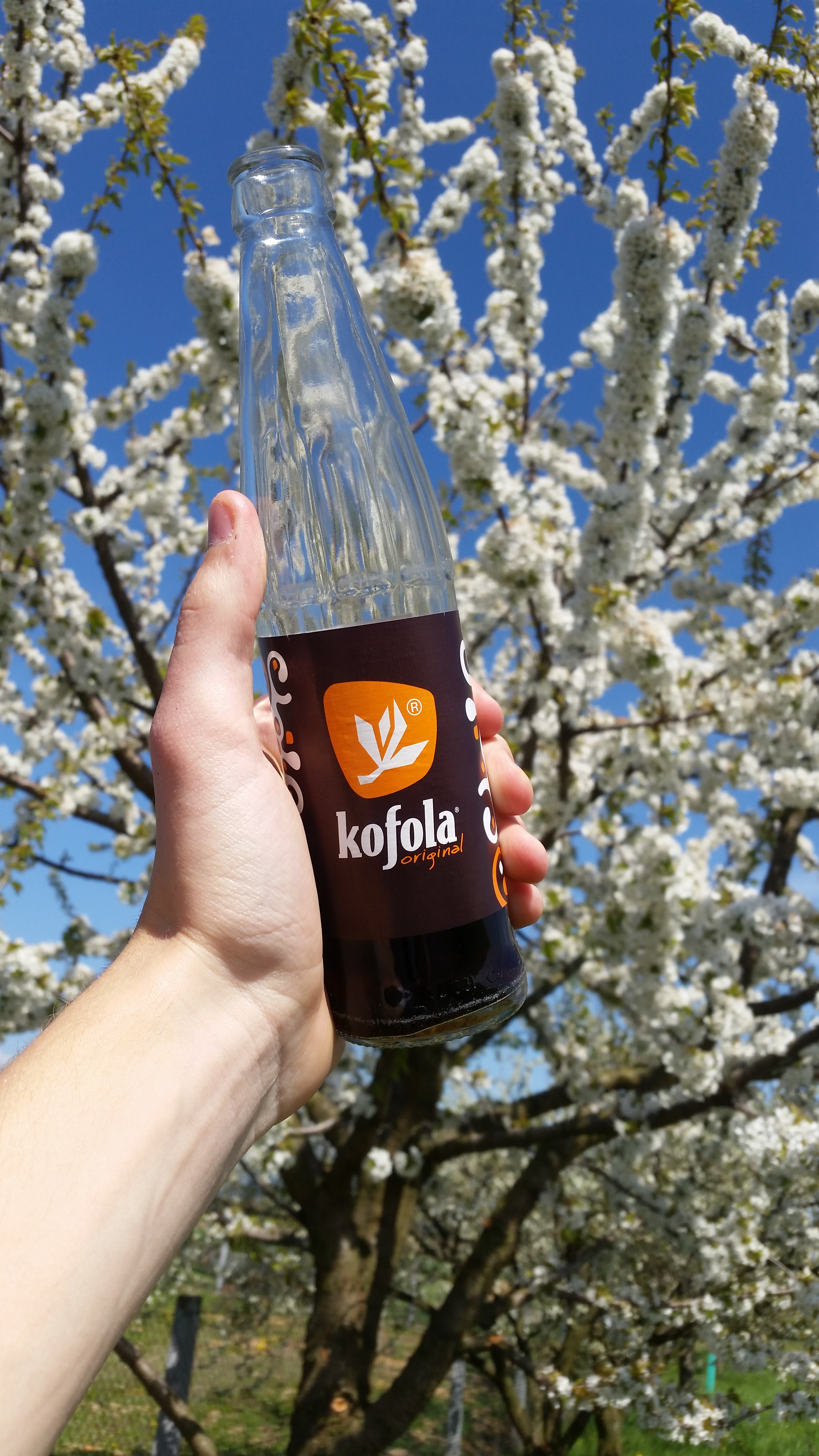 Lemonade Kofola